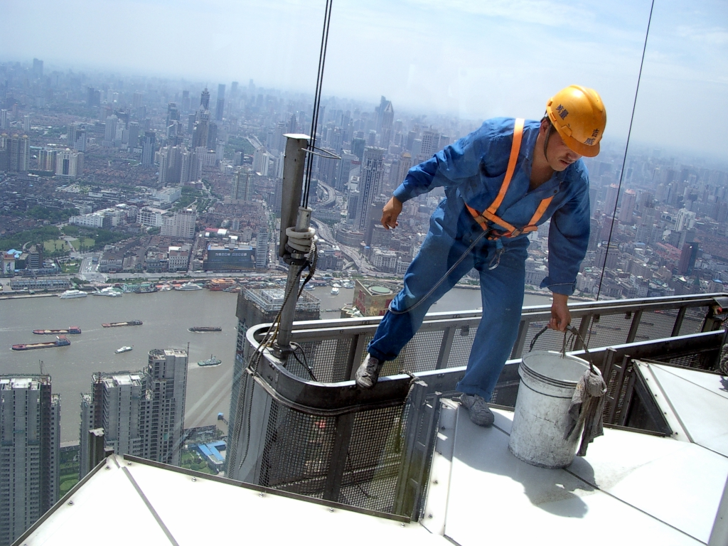 Window washer on a skyscraper in Shanghai.